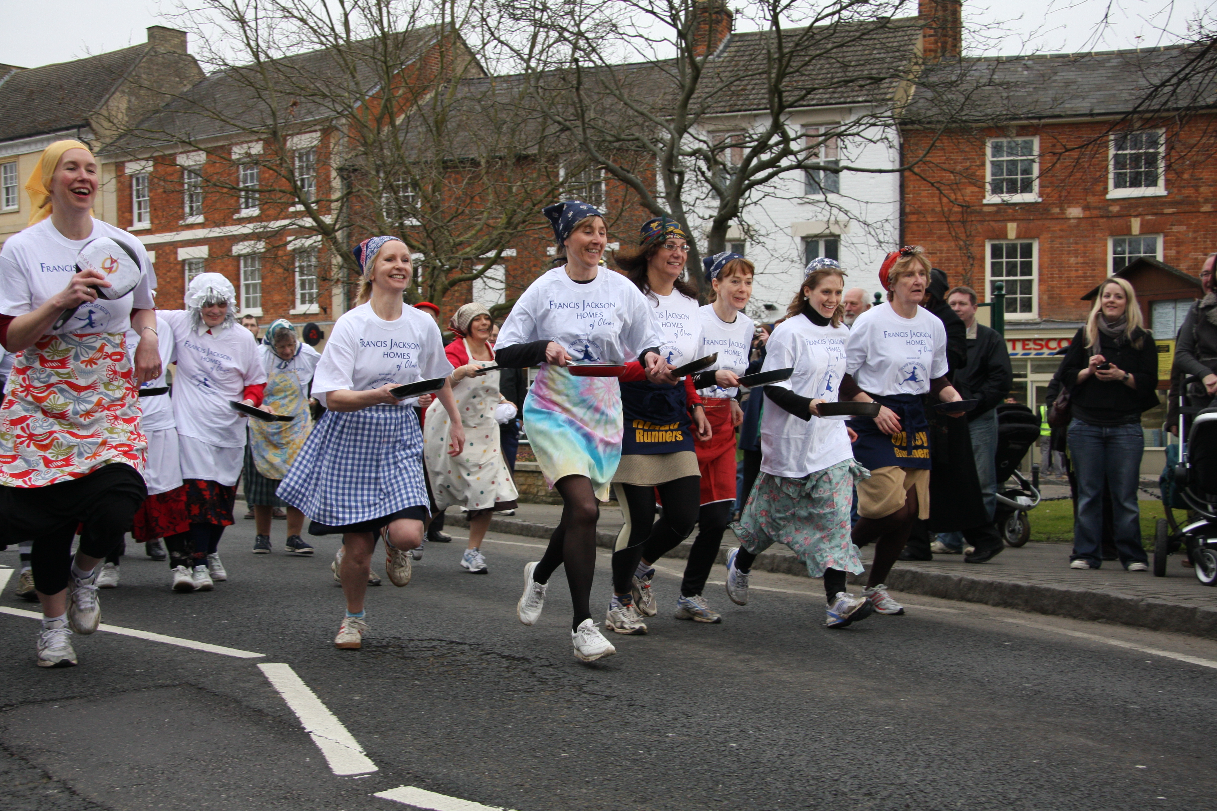 They're off